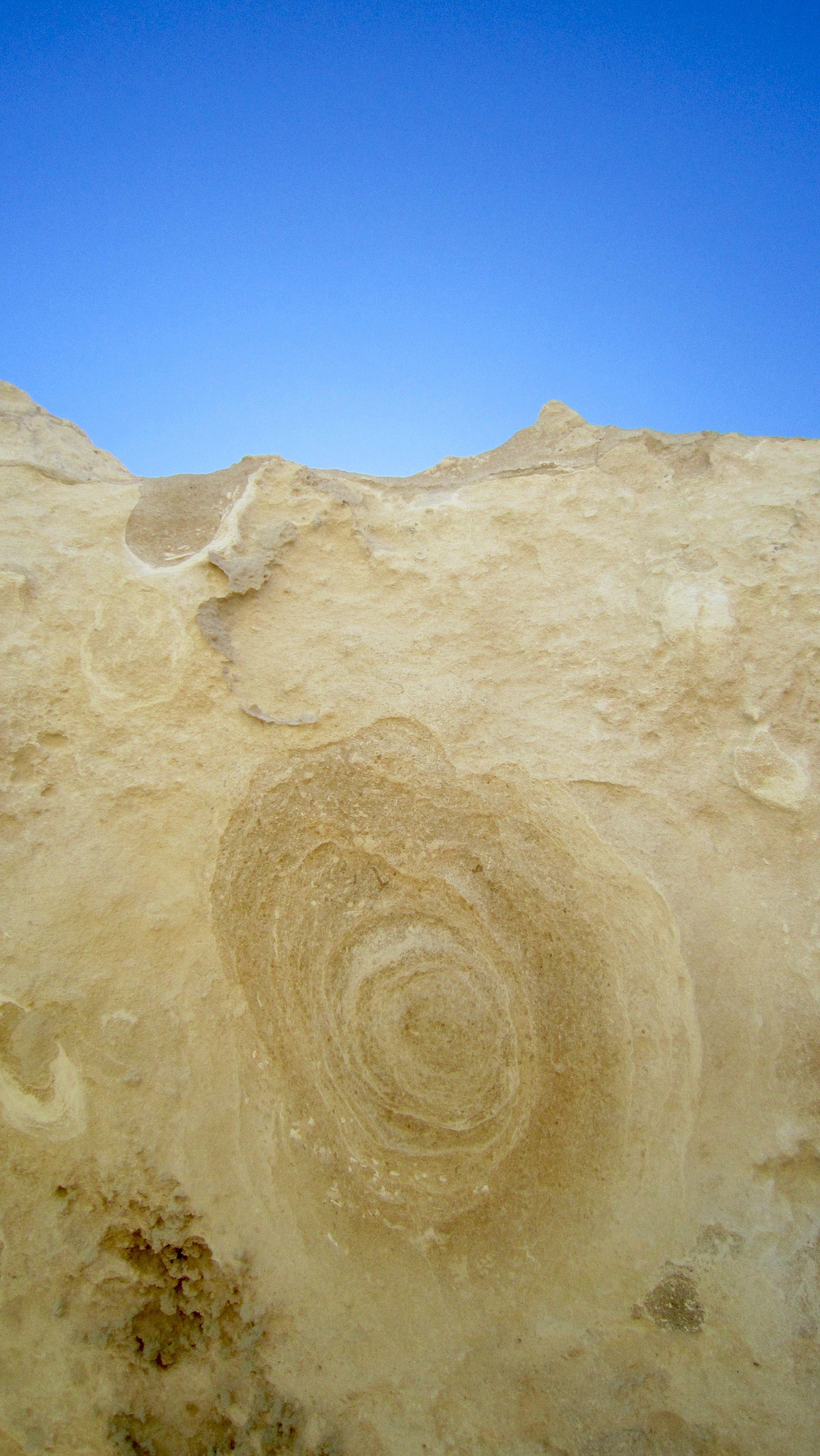 Close up of a Liesegang Ring